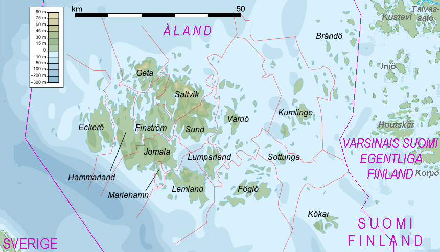 Topographic map of the Åland Islands.